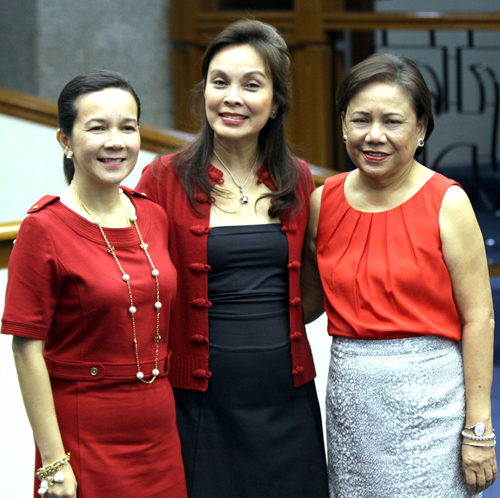 Senators Loren Legarda, Grace Poe and Cynthia Villar are all in red as they attend the plenary session, Tuesday afternoon. The Freedom of Information bill sponsored by Senator Poe is scheduled for interpellation, today, wherein Senator Legarda will be one of the interpellators.